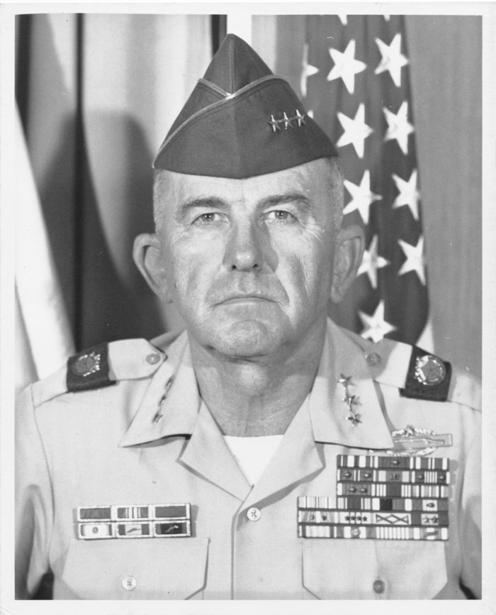 Government file photograph of LTG Robert Leahy Fair during his time as US Army 5th Corps commanding general. Exact date of photograph unknown taken in 1976.